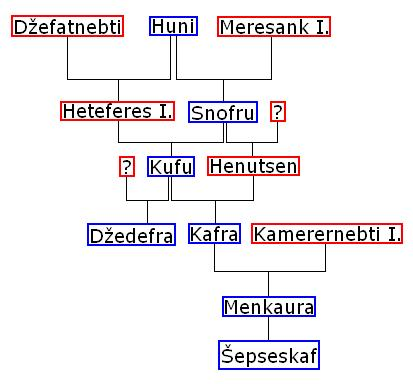 Family tree of the 4th dynasty of Egypt. The names of pharaohs are in blue, and queens' names are in red.